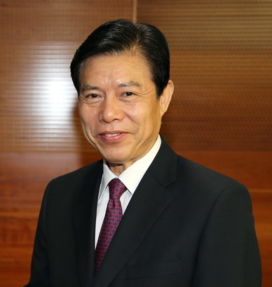 The Director General met with ZHONG Shan, China International Trade Representative and Vice Minister of Commerce (MOFCOM), and held discussions on cooperation in the areas of ISID, South-South cooperation, the Junior Professional Officer programme, and linkages between bilateral and multilateral funds, Shanghai, 23 April 2014.